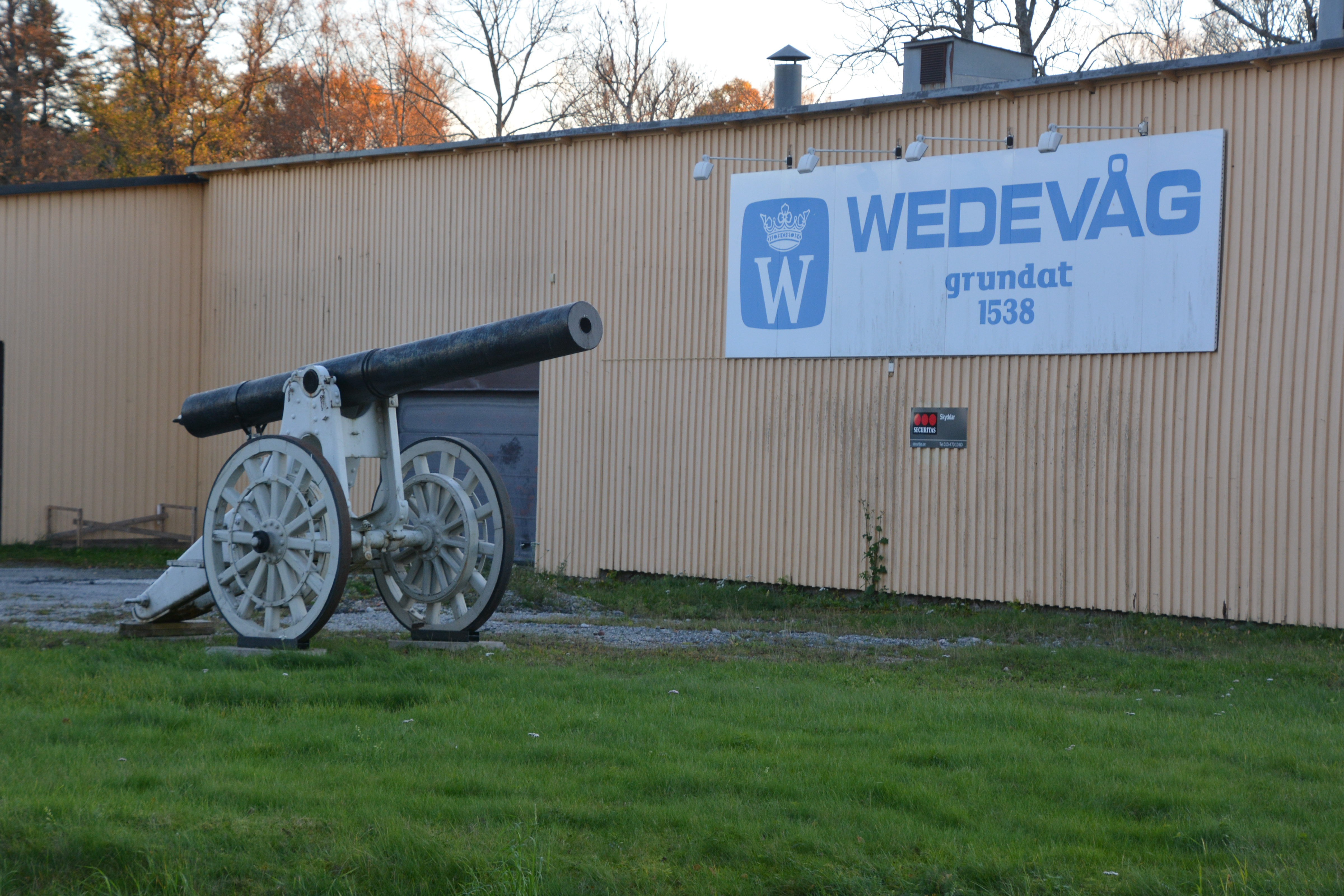 Wedevåg Tools